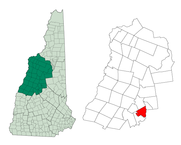 Map of a municipality in Belknap County, New Hampshire